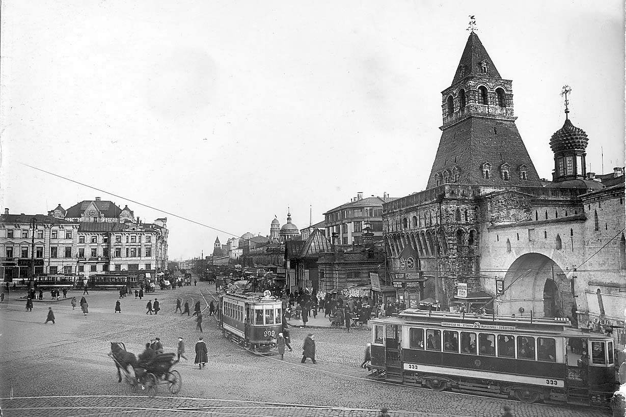 Vladimirskie Gate and Lubianka Square in Moscow, Russia.